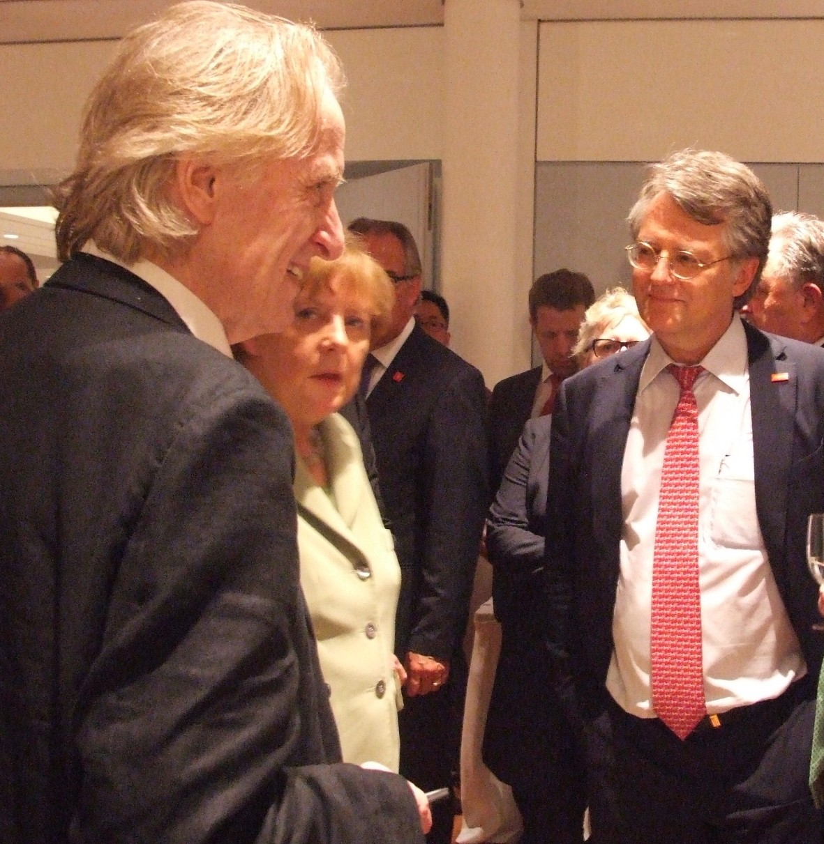 Chancelor_Angela_Merkel,_Jörg_Wuttke_and_Uwe_Kräuter_-_Peking_2014